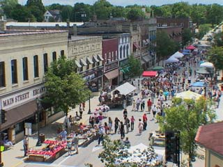 Main Street Hartford looking south from City Hall